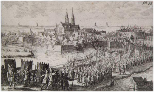 The siege of Bommenede (Netherlands) by the Spanish